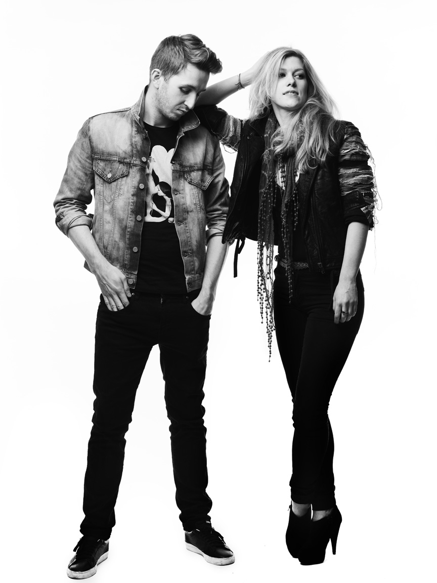 Rebecca Rosier and Tim Davis of Bim in London 2010 photographed by Chris Floyd